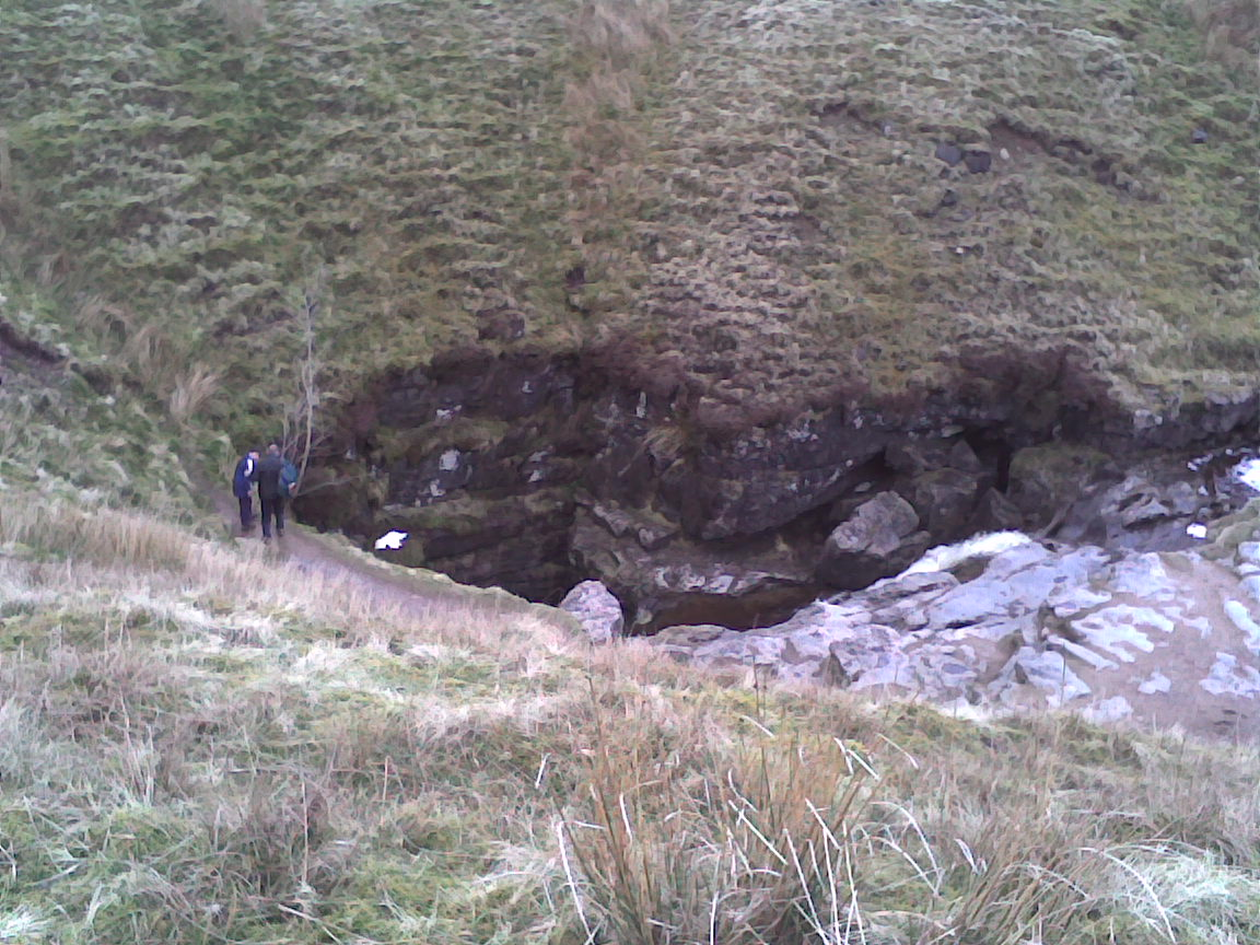 Gaping Gill, 105 m deep pothole (Ponor) where the stream Fell Beck flows into. North Yorkshire.